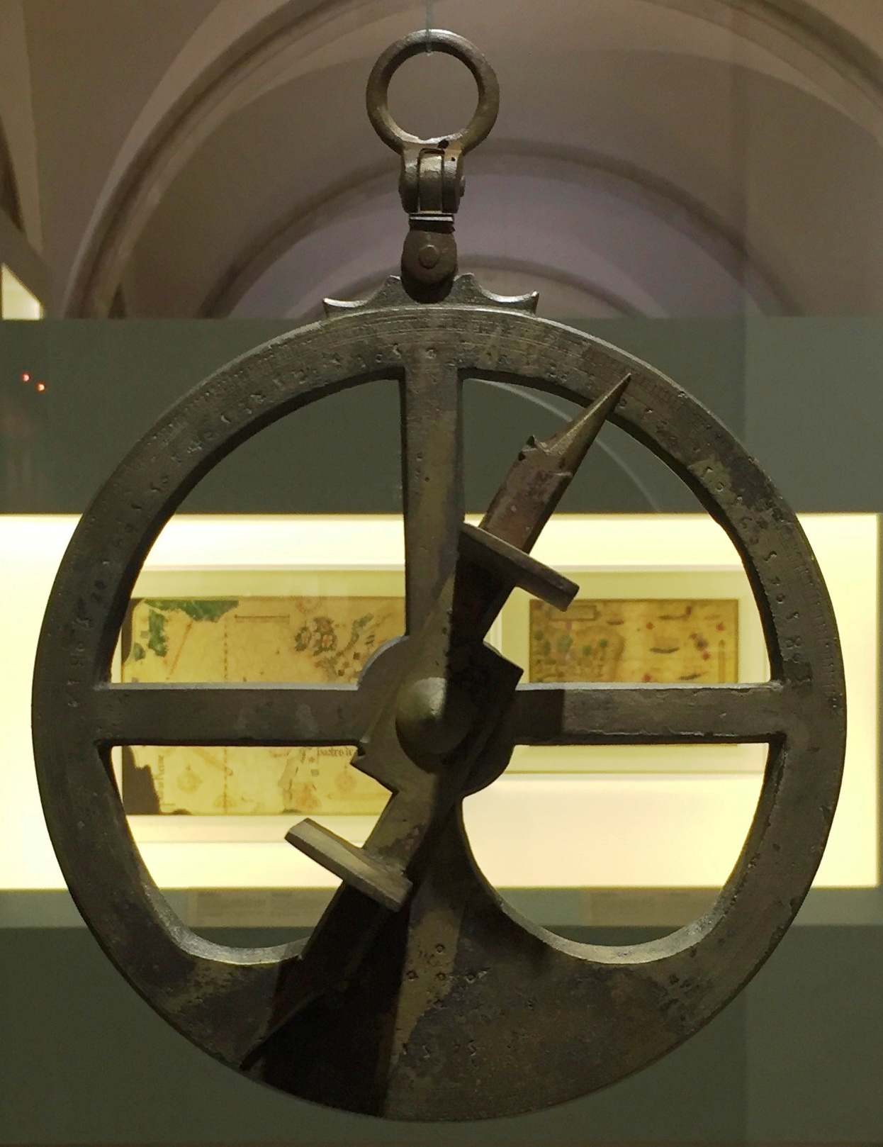 Mariner's astrolabe recovered in 1994 from a shipwreck at Ria de Aveiro, Portugal. Circa 1600. Navy Museum in Lisbon.